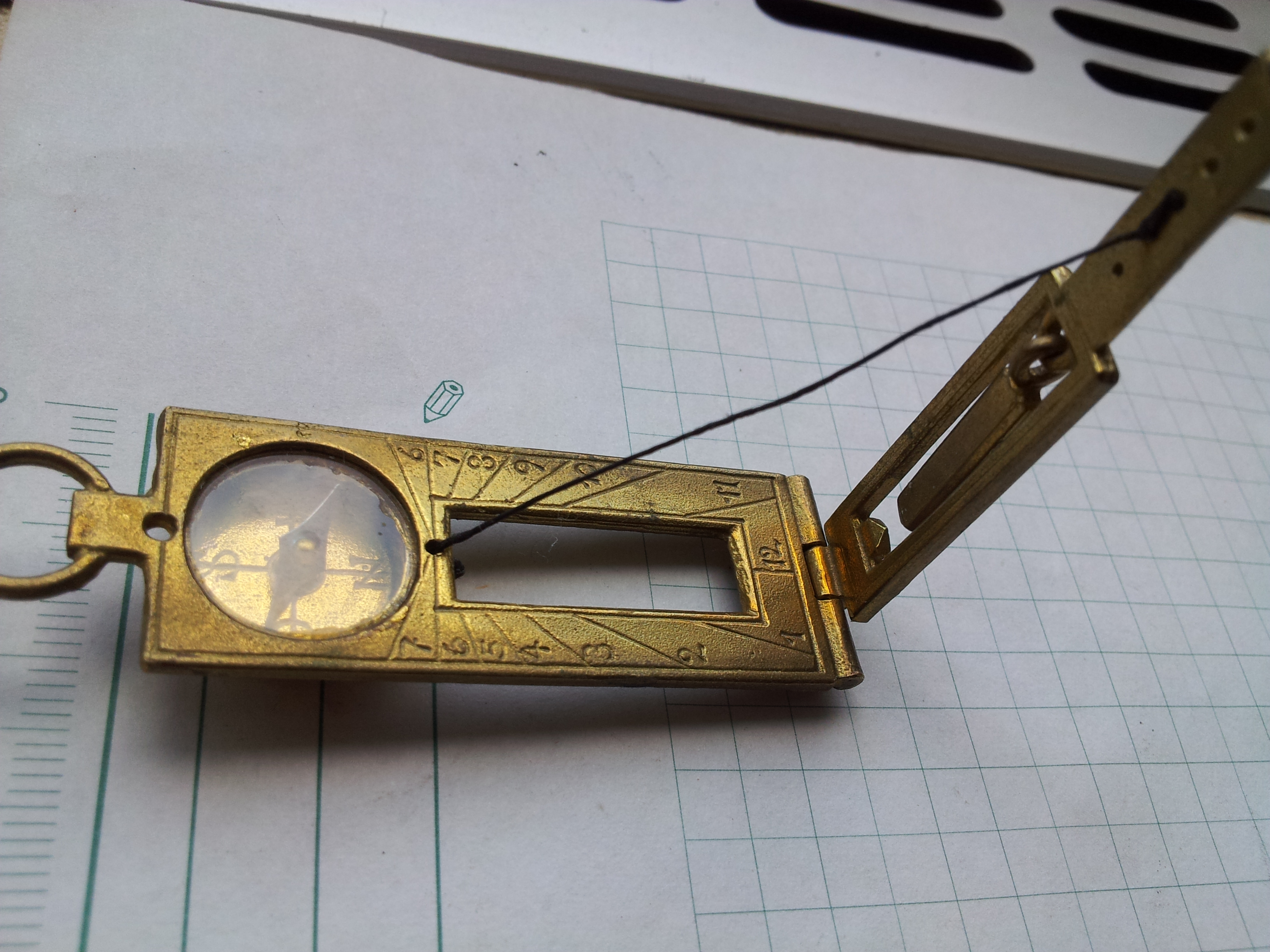 Klappsonnenuhr, göffnet